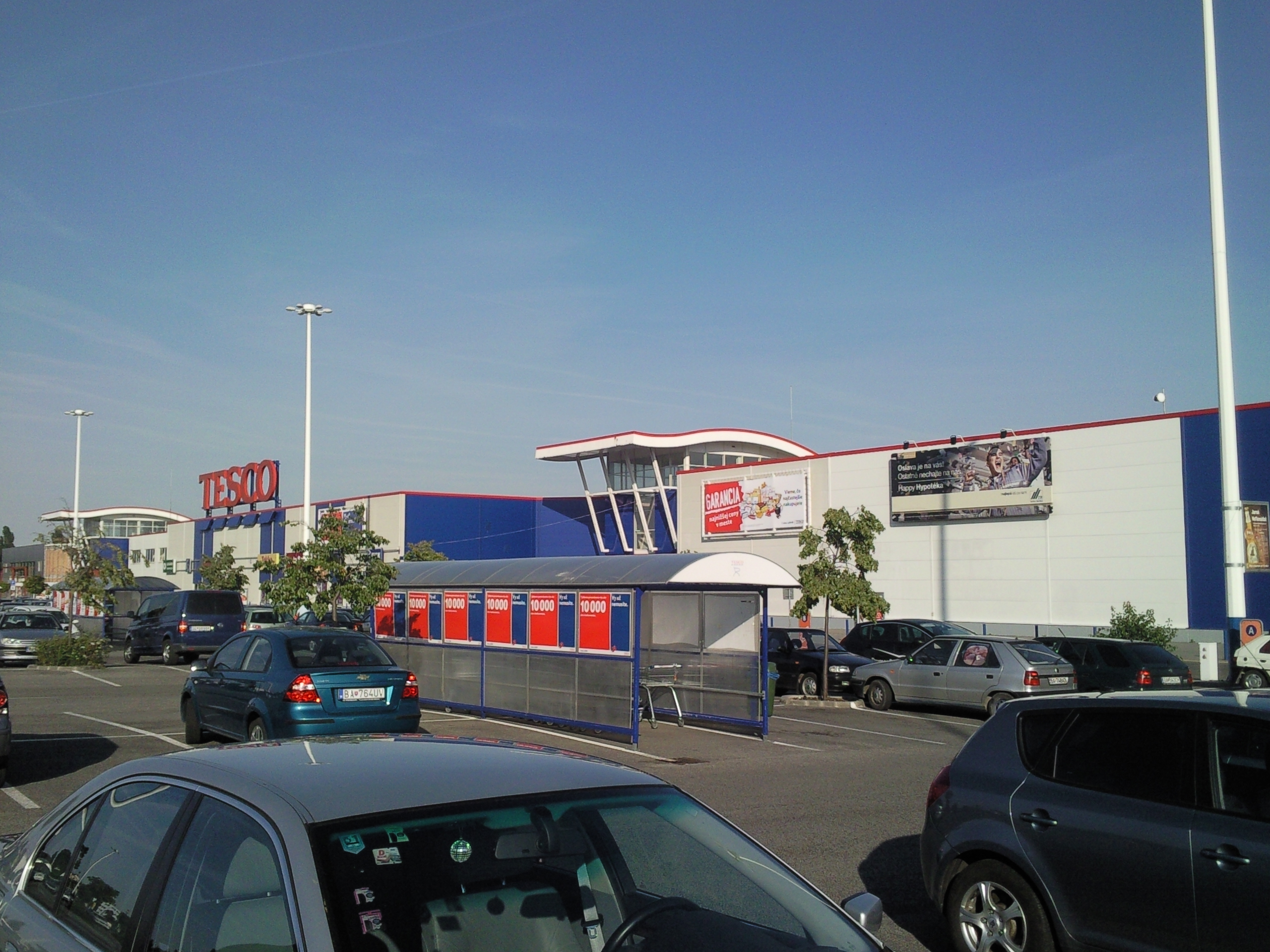 Shopping Palace, Bratislava